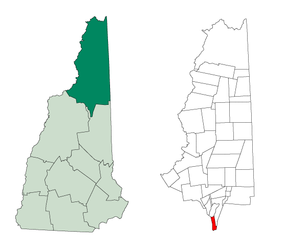 Map of a municipality in Coos County, New Hampshire